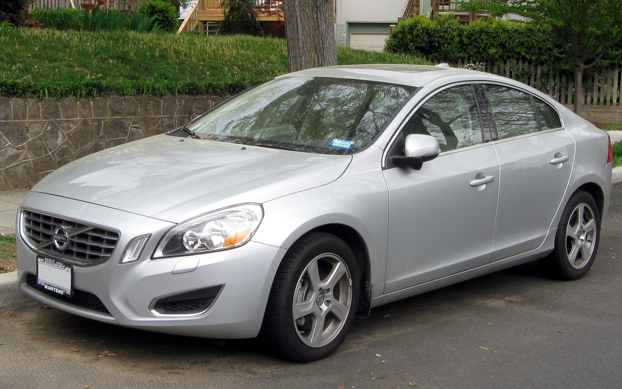 2011-2012 Volvo S60 photographed in Washington, D.C., USA.